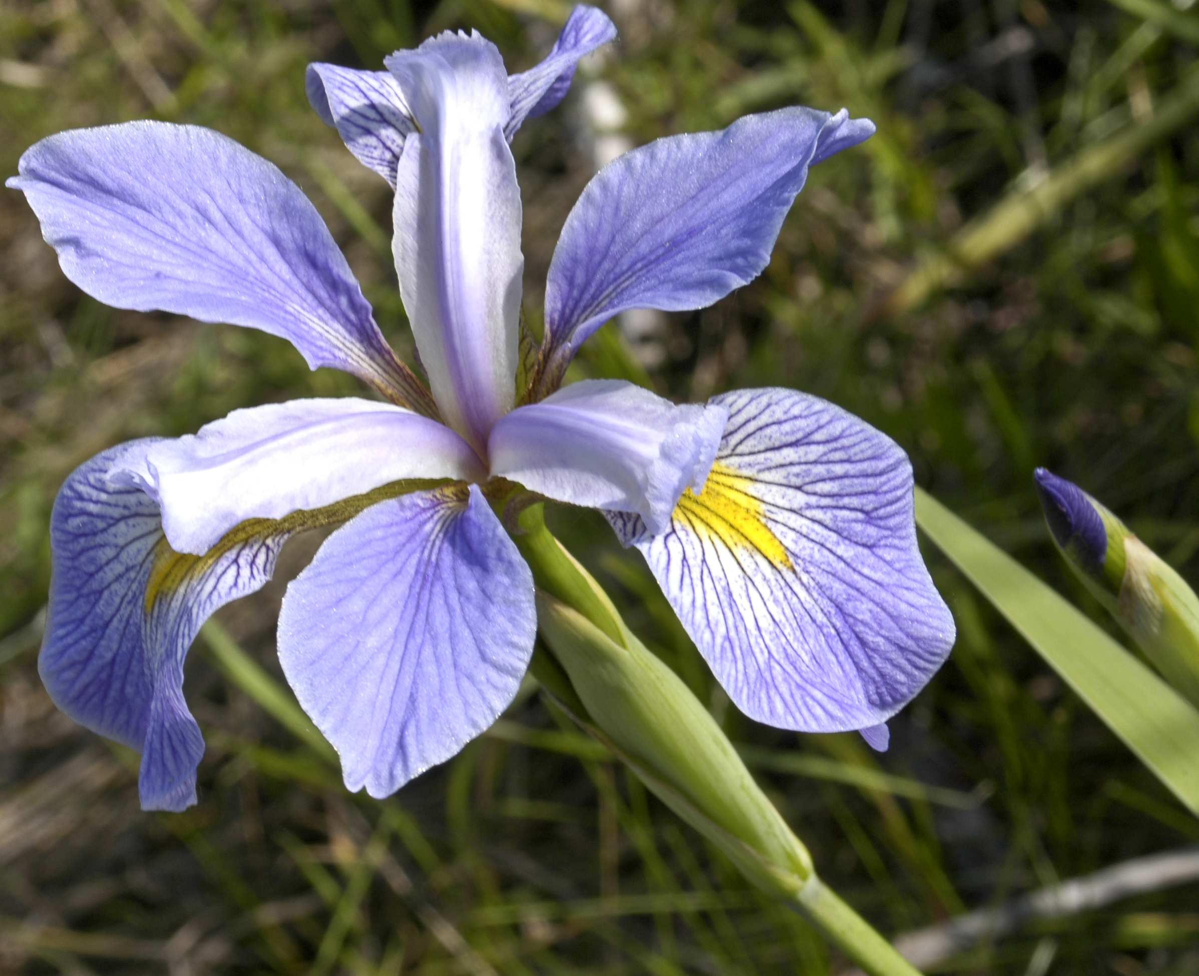 image of Iris virginica shrevei BLUE FLAG at the James Woodworth Prairie Preserve - a bud and a single flower at full bloom